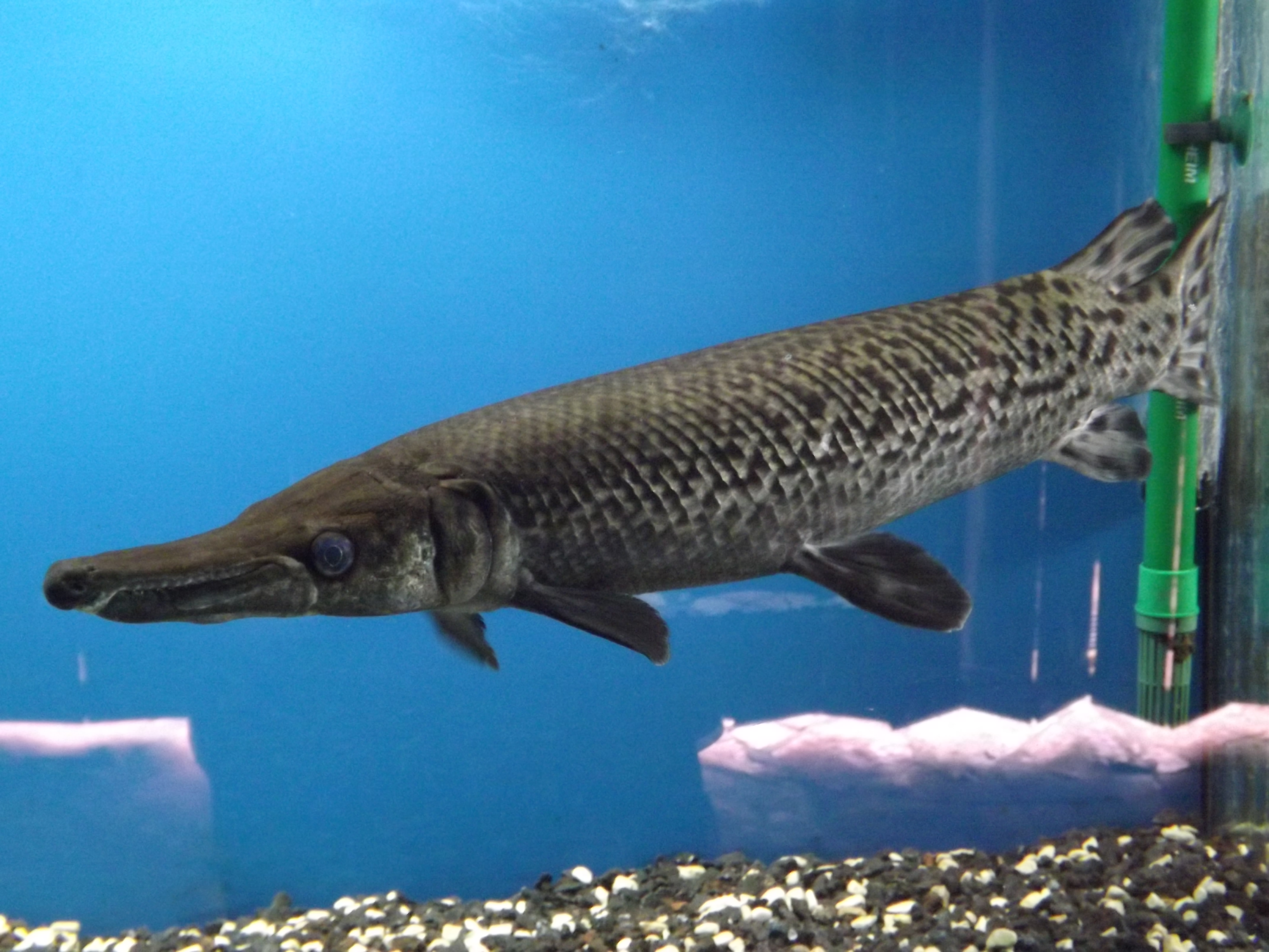 An Alligator gar (Atractosteus spatula) at the Jerusalem Biblical Zoo.